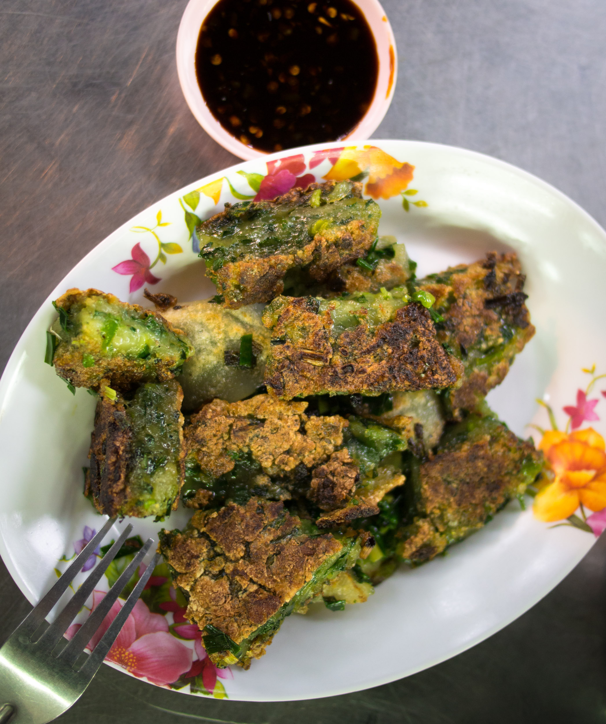 Khanom kuichai (Thai script: ขนมกุยช่าย). Originally a Teochew-Chinese dish called "gu chai gue" (Chinese script: 韭菜馃) in the Teochew language, they are steamed dumplings made from rice powder and garlic chives. The dipping sauce for this dish is soy sauce which, as is the case here, has been spiced up with dried chilli flakes. This particular version has been fried to give it a crispy texture. The photo was made at a street stall in Yaowarat, Bangkok's Chinatown.